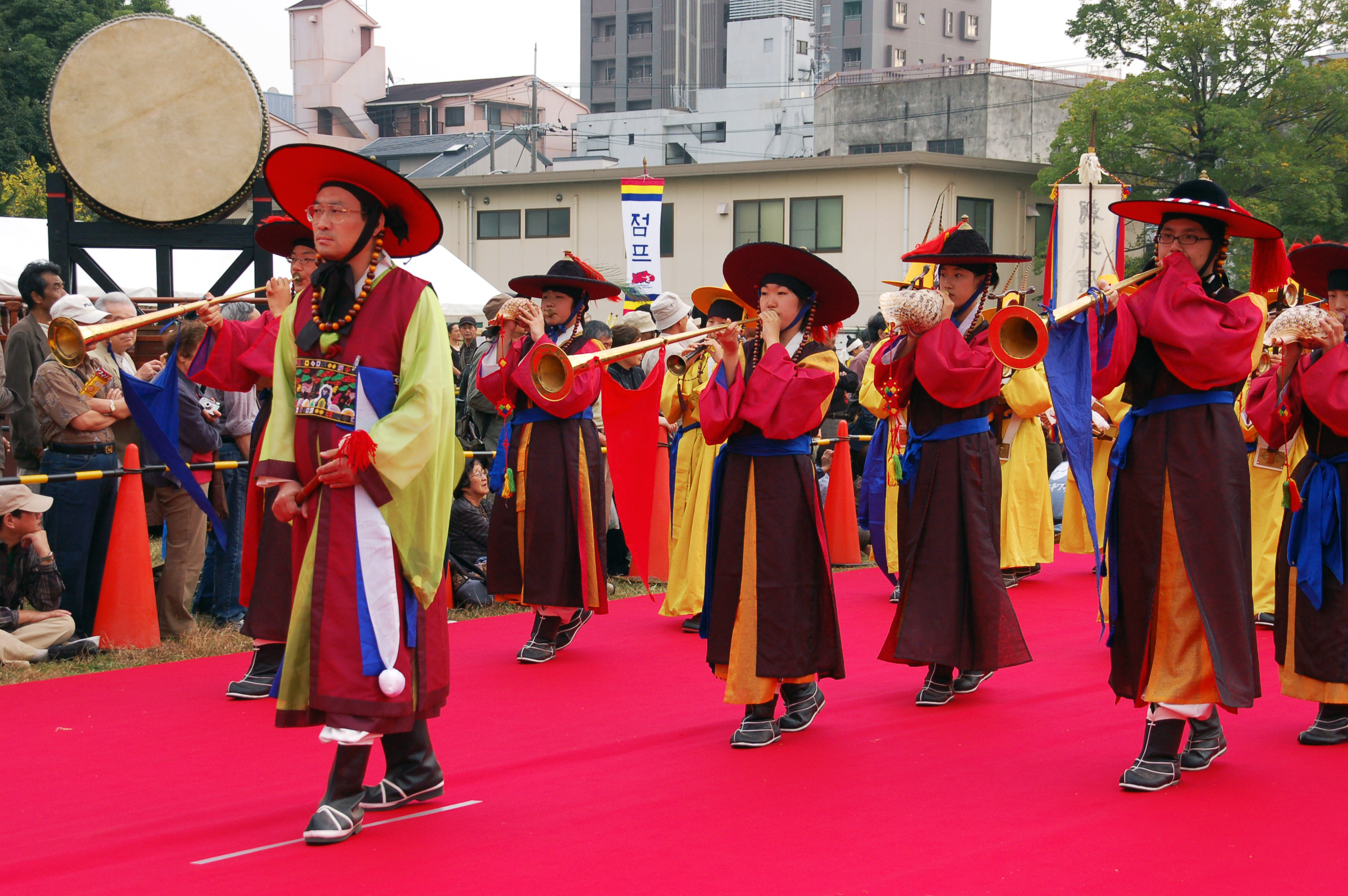 Traditional band of Korea playing a music with instruments.